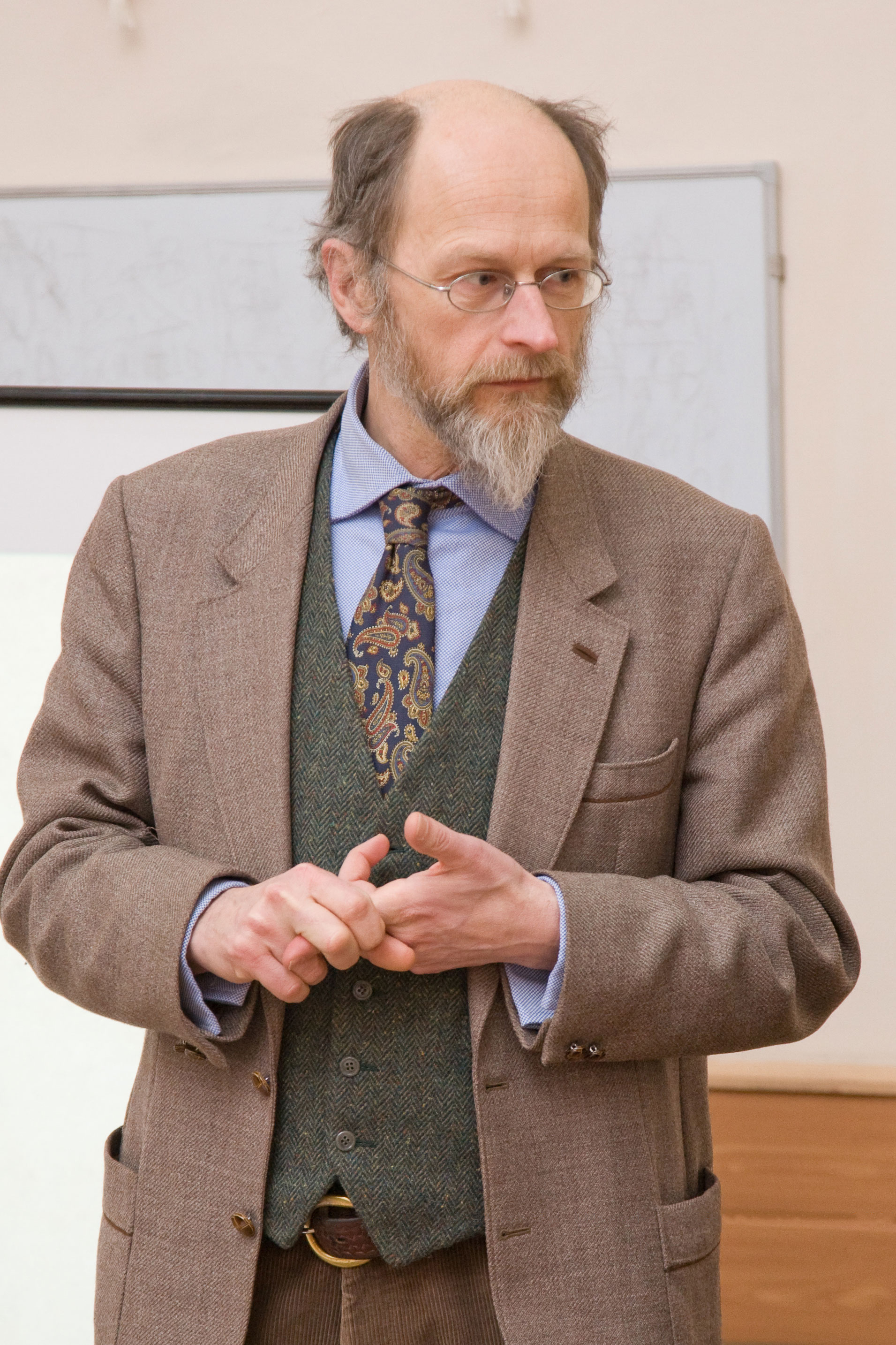 Pr. Michel Weber, Belgian philosopher. Presentation in Dniproperovsk, Ukraine